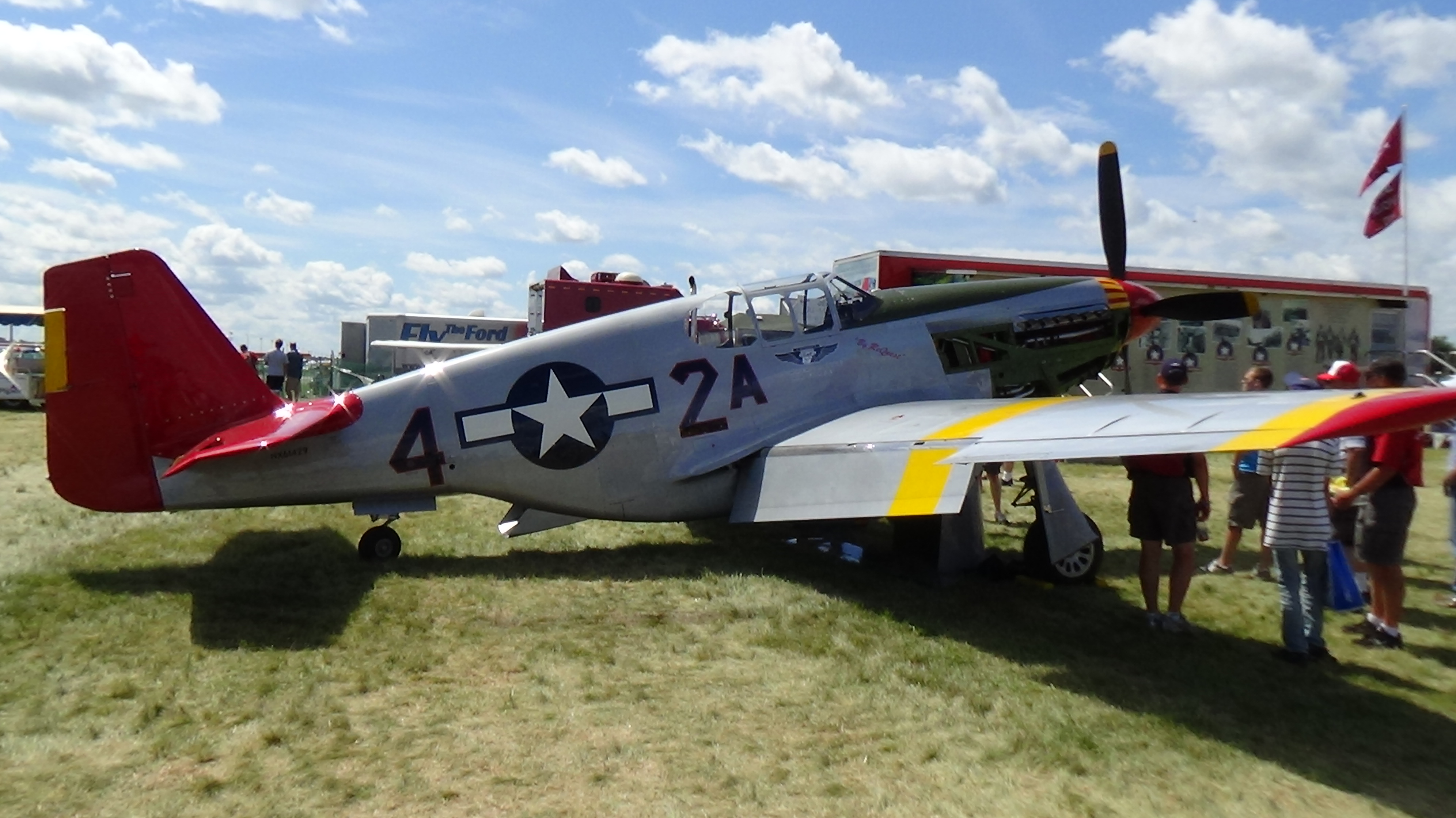 Photo taken of the P-51 Mustang Redtail flown by the Tuskegee Airman this particular Mustang is part of the Red Tail Project